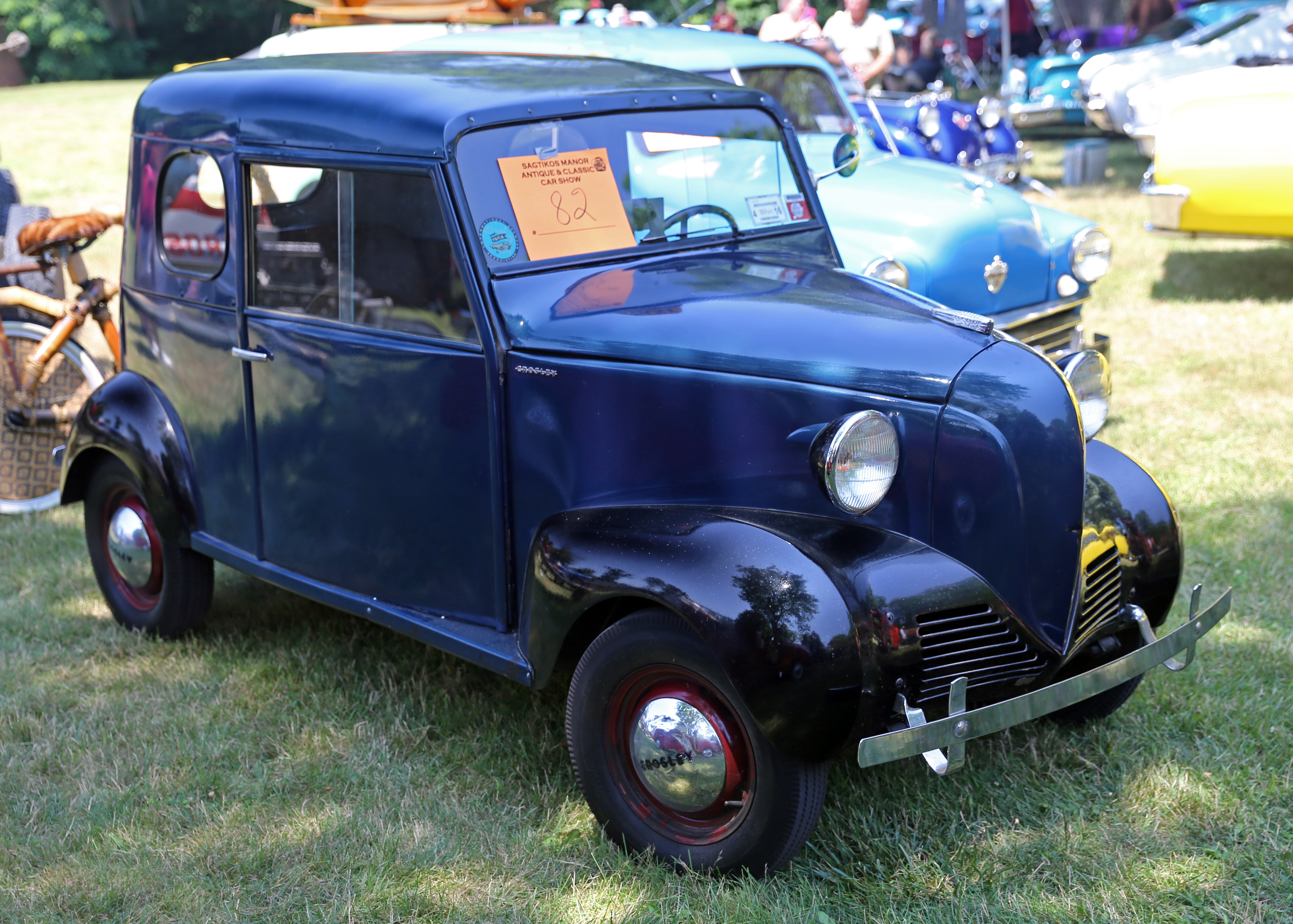 A 1942 Crosley CB-42 Liberty Sedan, first year for Crosleys with a metal roof.